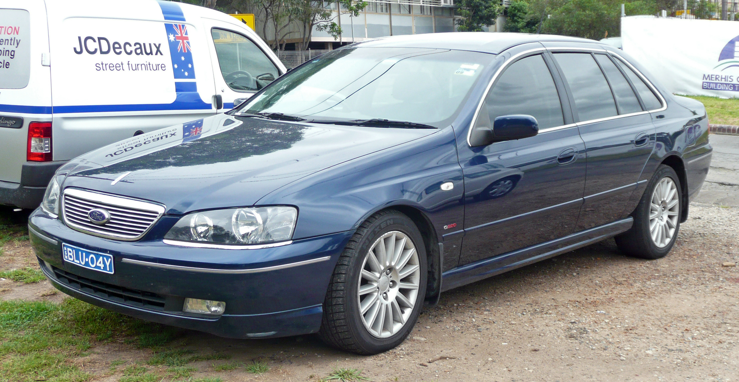 2003–2005 Ford Fairlane (BA) G220 sedan. Photographed in Sutherland, New South Wales, Australia.